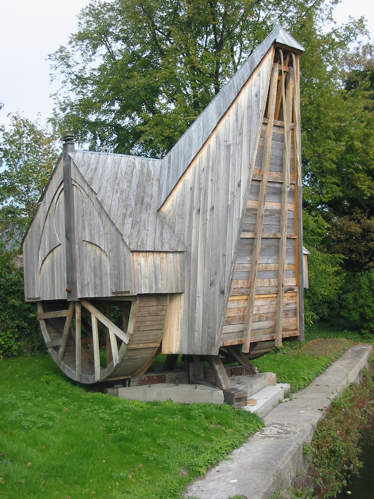 Modern reconstruction of Middle Ages crane in Bruges, Belgium. Cranes like this were used to build Europe's cathedrals in the Middle Ages. The crane would be fixed on top of a wall as it was being constructed and was powered by men running inside the two large wheels.